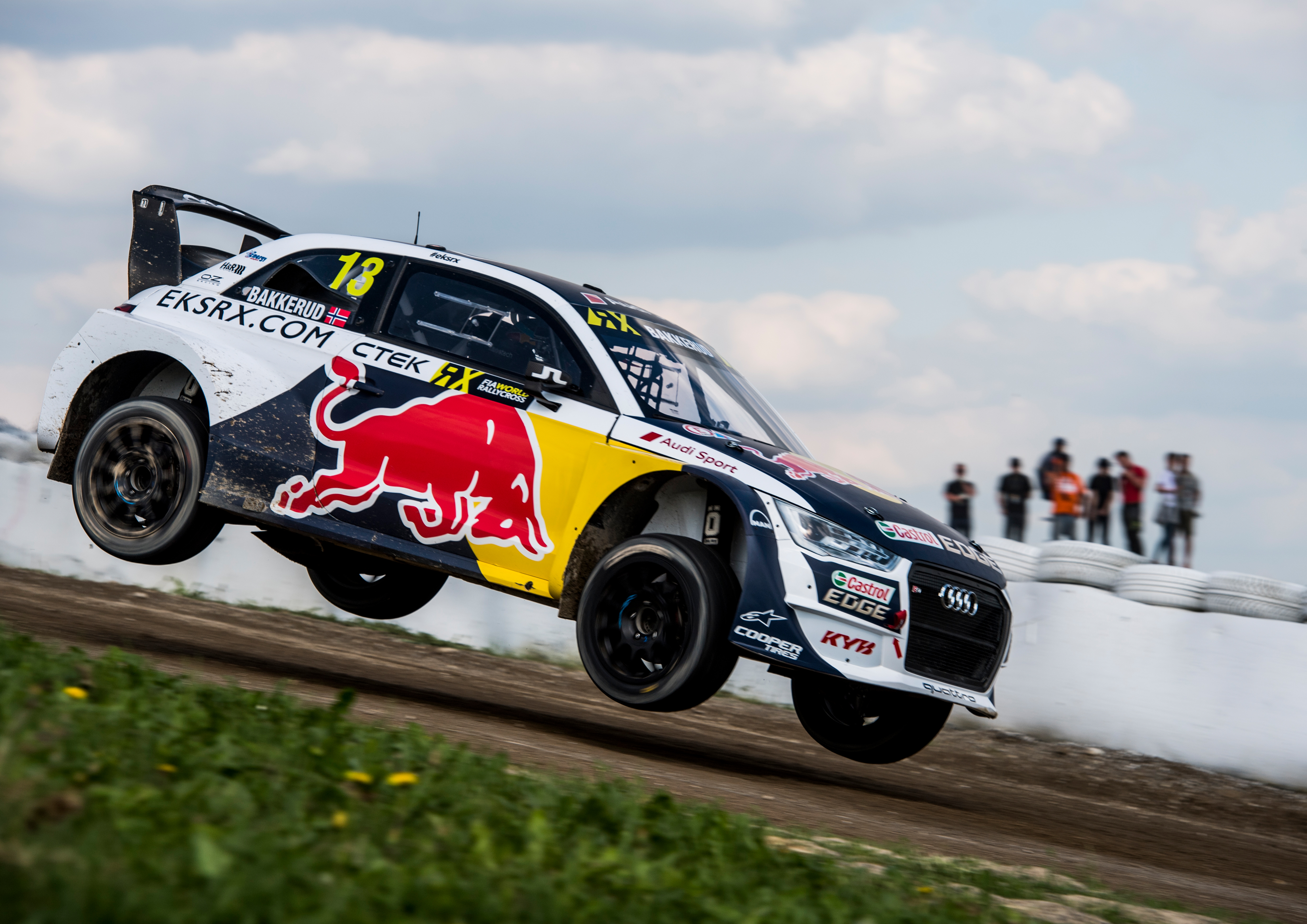 2018 FIA World Rallycross Championship // Round 3, Belgium, Mettet // Credit: EKS Audi Sport